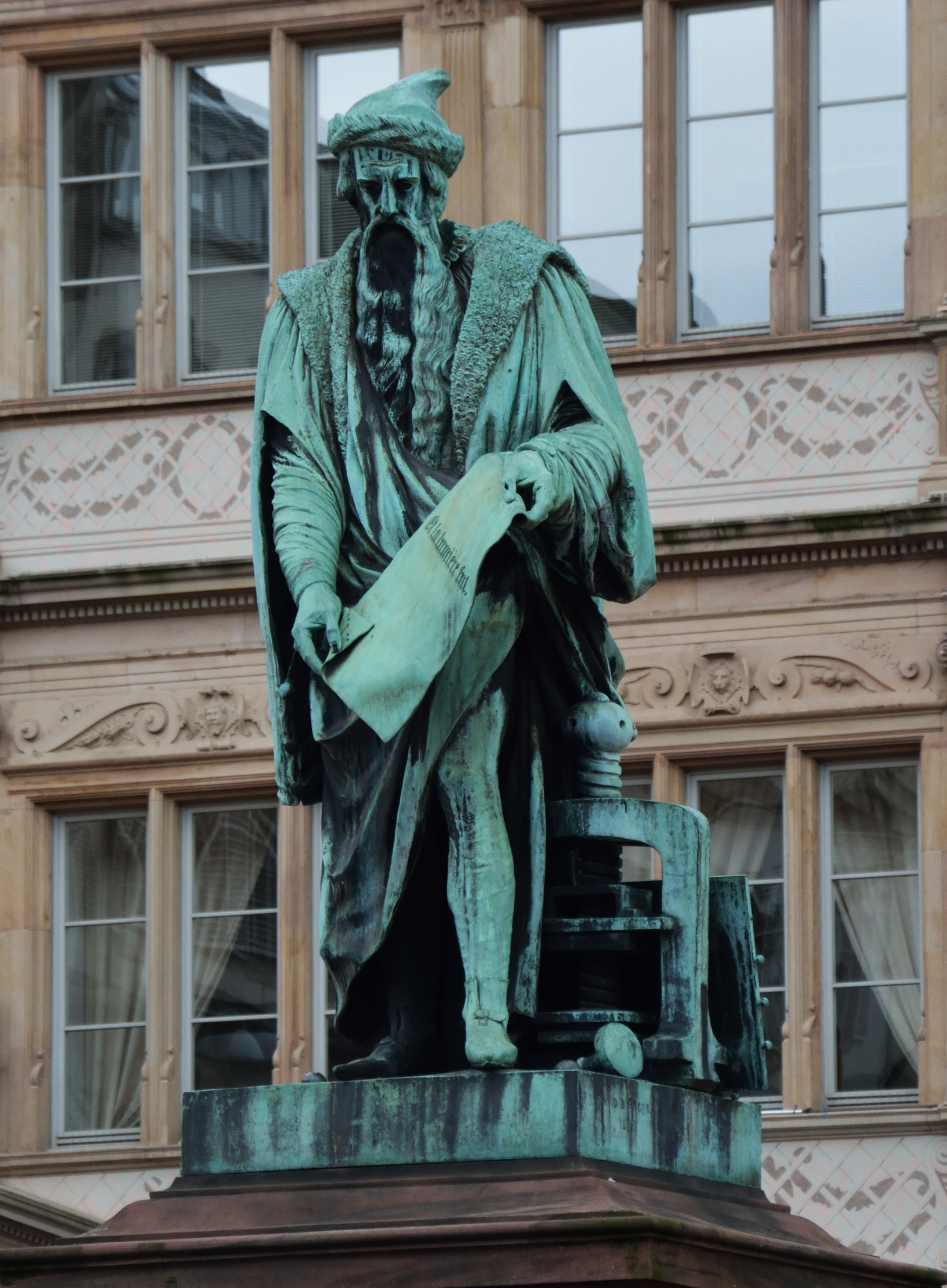 Bronze statue of Johannes Gutenberg by David d'Angers (1788-1856) to be seen on Gutenberg Square, Strasbourg.